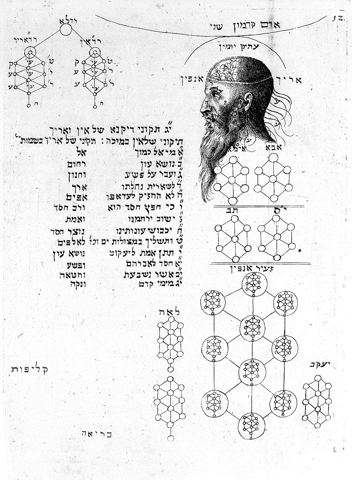 Christian Knorr von Rosenroth, Kabbala denudata. Rare Books Keywords: Christian Knorr von Rosenroth